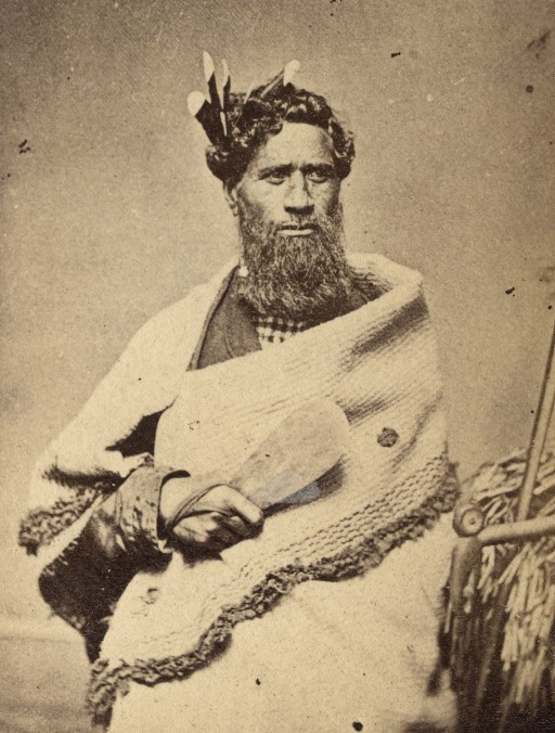 Chef Maori qui tient un mere - Maori chief holding a Mere weapon